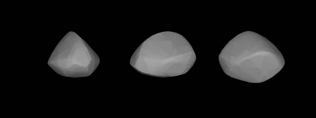 A three-dimensional model of 2100 Ra-Shalom that was computed using light curve inversion techniques.